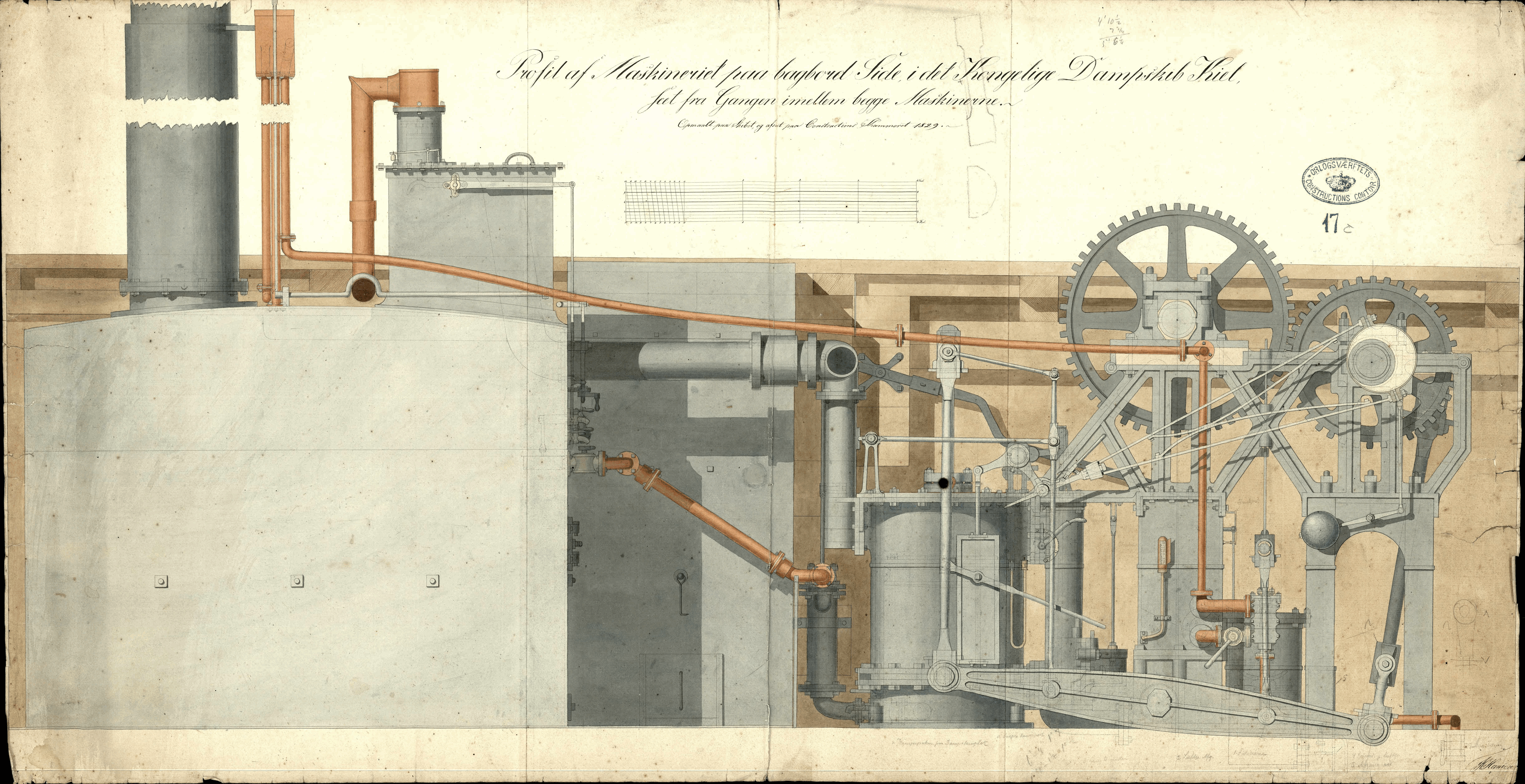 The Royal Danish paddlesteamer Kiel - formerly the British Eagle - measured and drawn at Orlogsværftet (Danish Naval Shipyard) in Copenhagen in 1829. The drawing shows the port engine, built for the Eagle by Boulton and Watt.